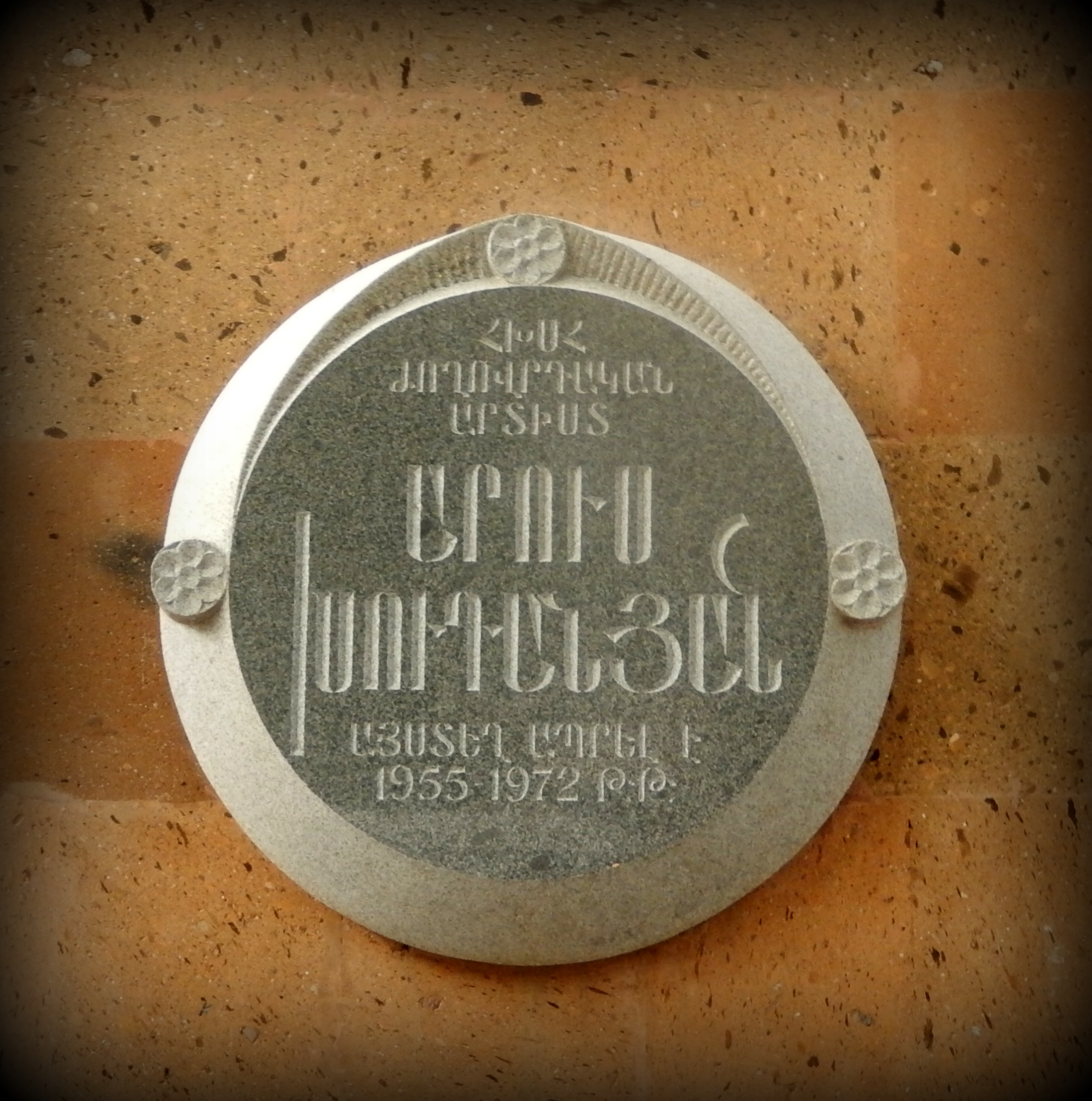 Plaque fro Arus Khudanyan 1/35